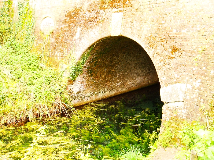 I took this in April 2006